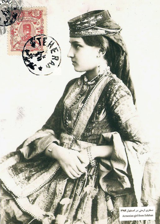 Postcard from the Qajar era showing an Armenian girl from New Julfa, Isfahan. Part of her head-piece is called benaris, which was a rare handcrafted tashkinak (handkerchief) from India. The pearls around her neck are called Bozhozh, which used to be a wedding gift from the in-laws.